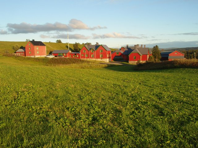 Picture of Skalstugan village - taken 2008.08.15